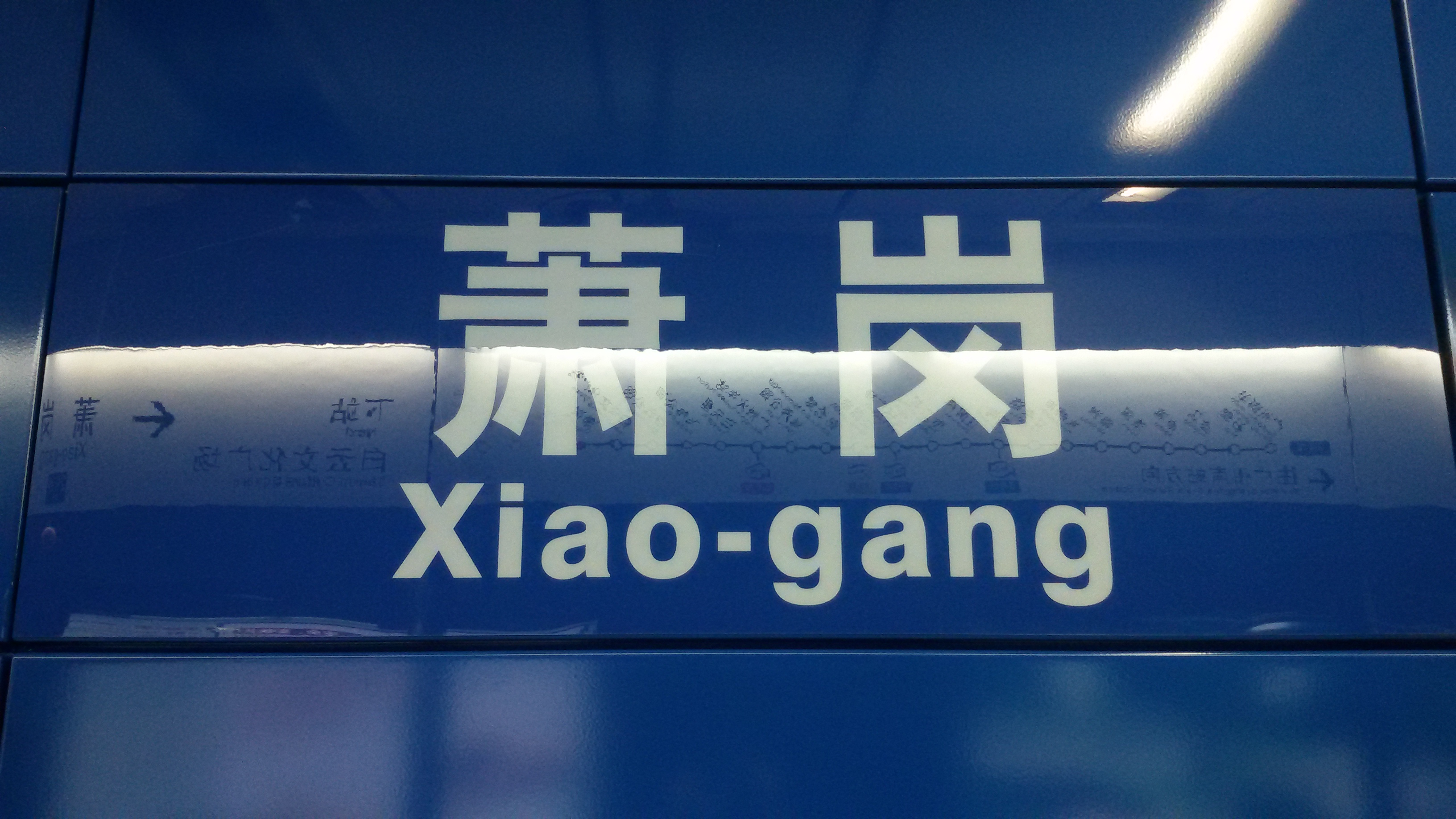 Name for Xiao-gang Station (Simplified Chinese & English) in Guangzhou Metro. 粵語: 廣州地鐵，蕭崗站嘅簡體字同英文站名。